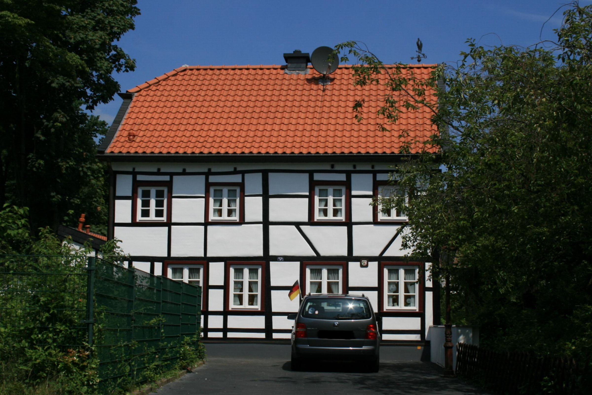 Cultural heritage monument No. U 001 in Mönchengladbach